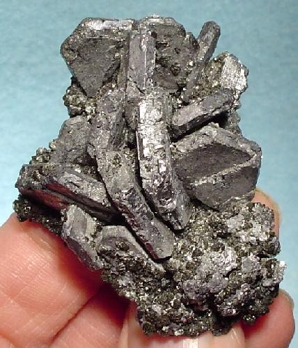 Galena Locality: Buick Mine (Amax Buick Mine; Moloc Mine), Bixby, Viburnum Trend District, Iron County, Missouri, USA (Locality at ) Size: 5.3 x 3.9 x 2.2 cm. A SUPER and UNCOMMON cluster of sharp, lustrous, lead-gray, spinel-twinned galena crystals from the famous Buick Mine of Missouri’s Viburnum Trend. The spinel twins reach 2.0 cm across. Very seldom available and this is a really good one. Ex. George Feist Collection.